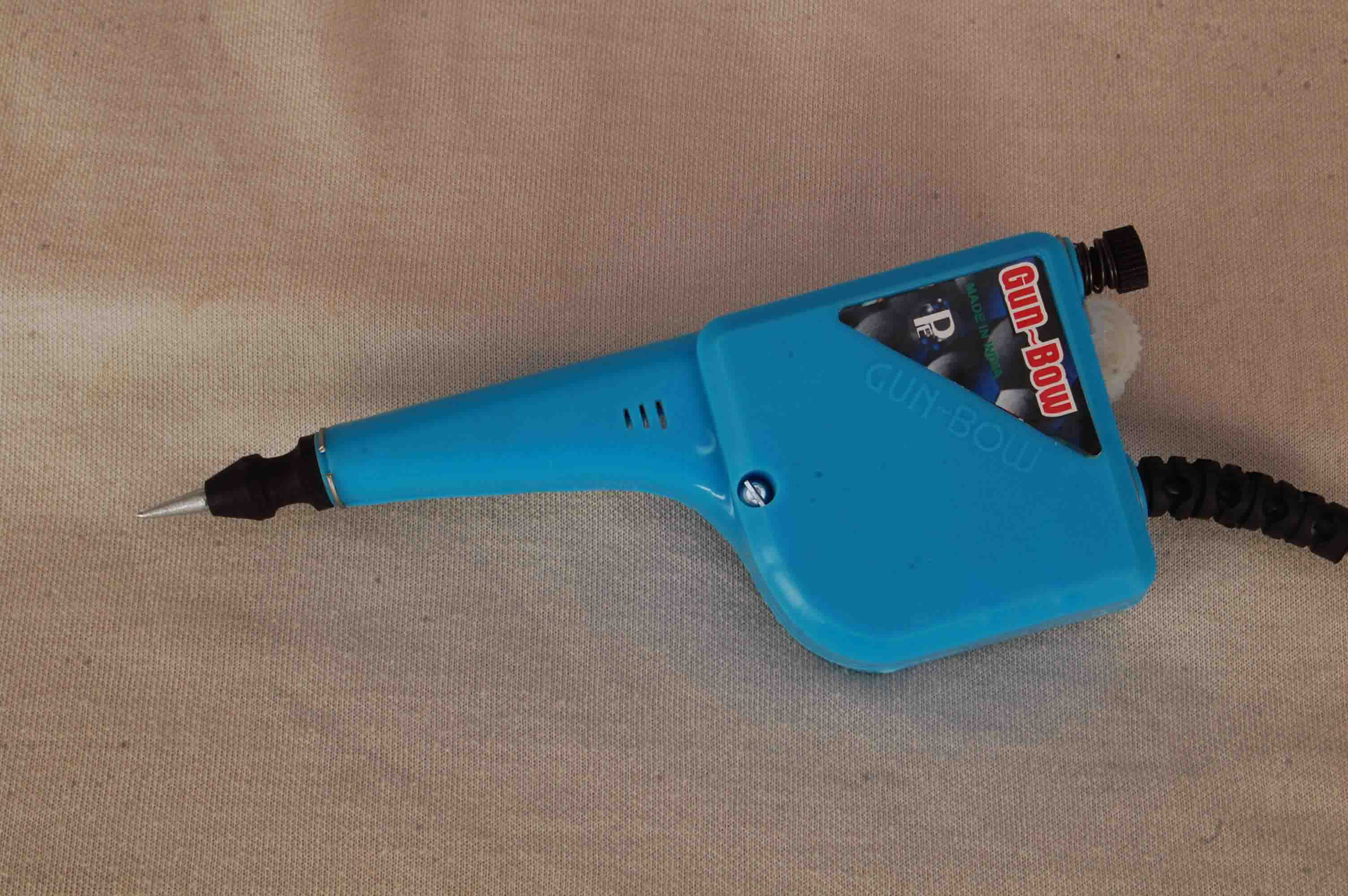 after hammers and chisles, the next advance in the technology was electric engraving tool. this kind of tools are used to write on metals, plastics, etc... modern tools also are capable of writing on hardened metals upto 55 Rc. these tools are also being used in gold/jewellery engraving. This is non commertial introduction to such electric engraving tools